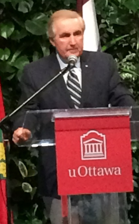 Former Premier of Saskatchewan Roy Romanow speaking at the University of Ottawa.